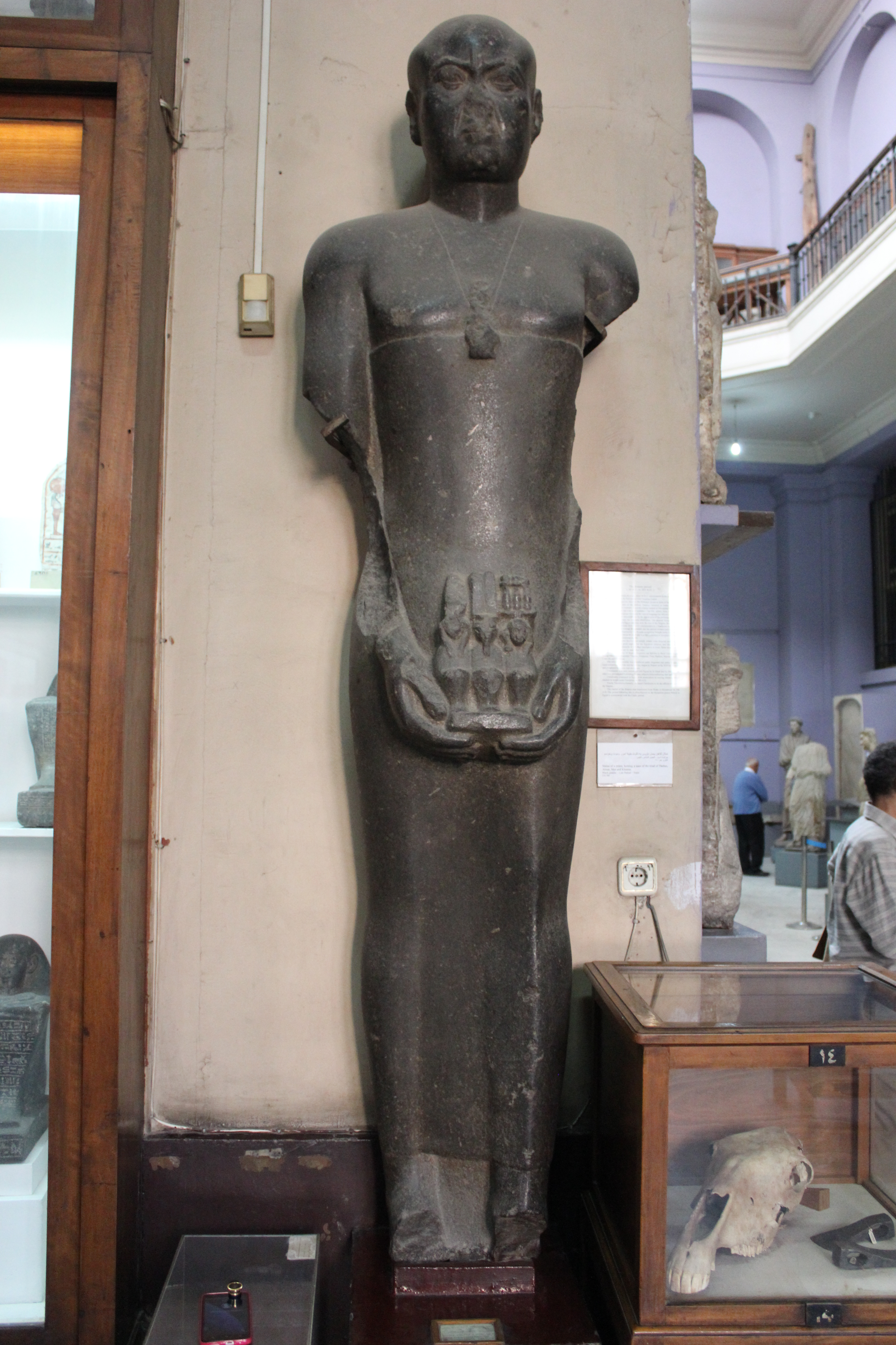 Statue of a priest, holding a naos of the triad of Thebes, Amun, Mut and Khonsu, Egyptian Museum in Cairo, Egypt.)